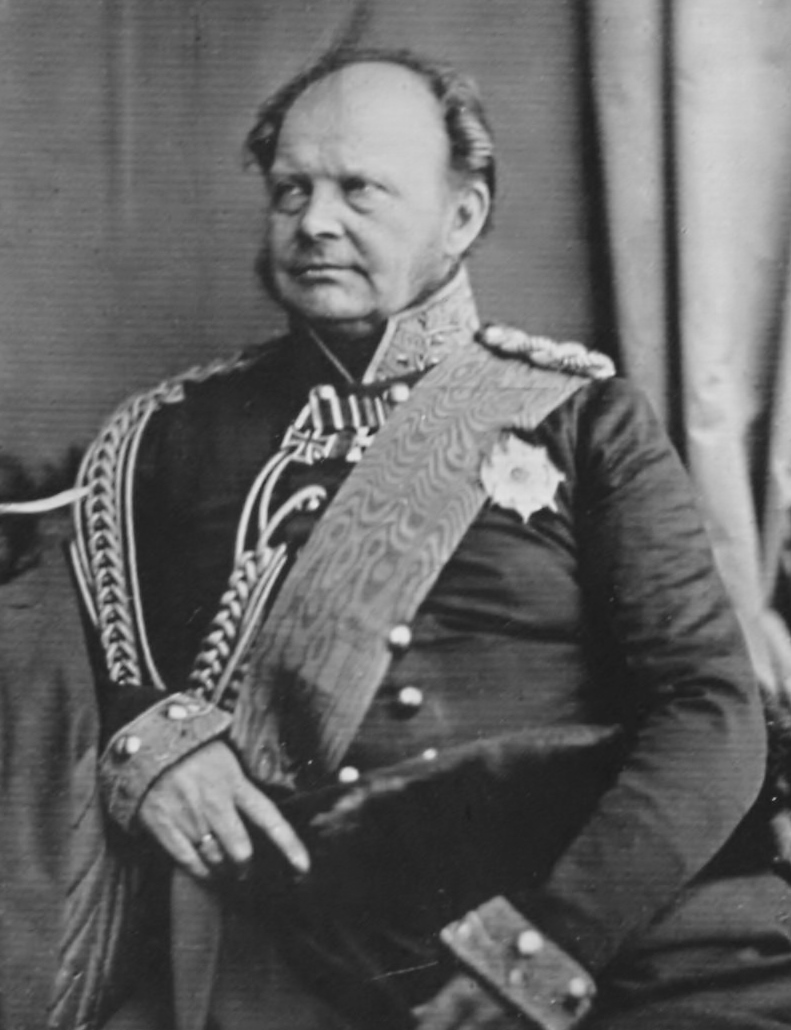 Cropped 1847 Photograph of Friedrich Wilhelm IV of Prussia